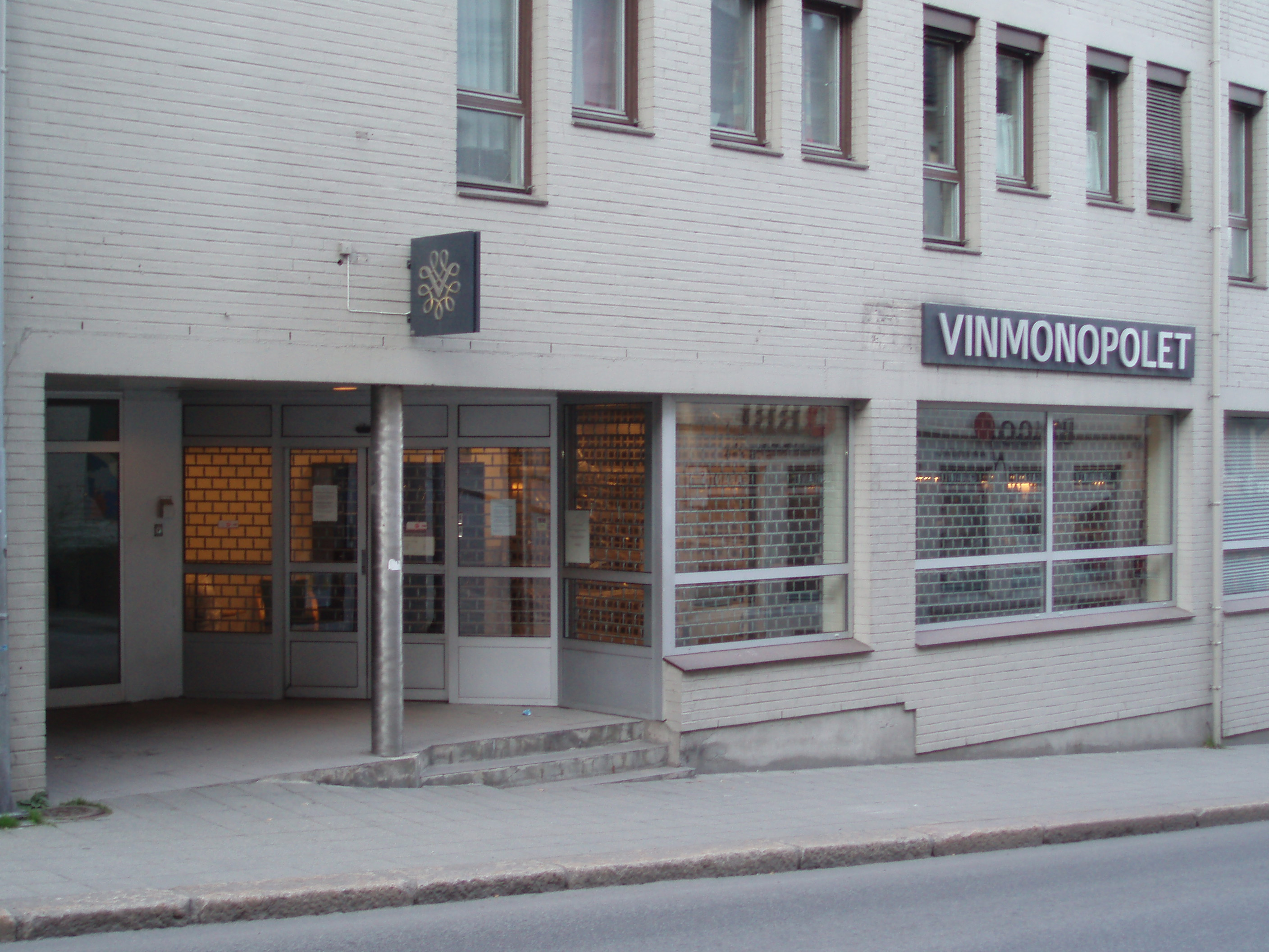 Vinmonopolet, Arendal, Norway Photo by User:Friman 2006-06-28